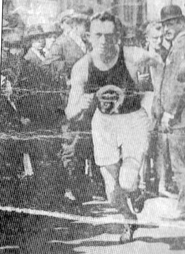 Taken at the race where Patsy was chasing the flying Fin Hans Kolehmainen